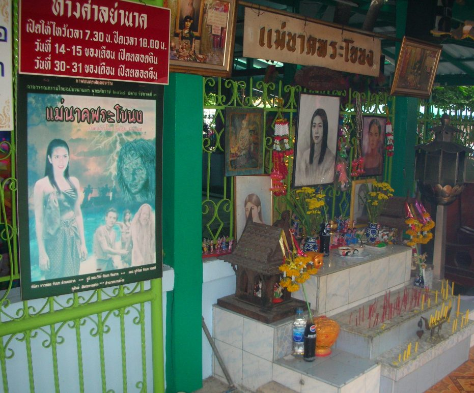 Mae Nak Phra Khanong shrine, part facing the canal